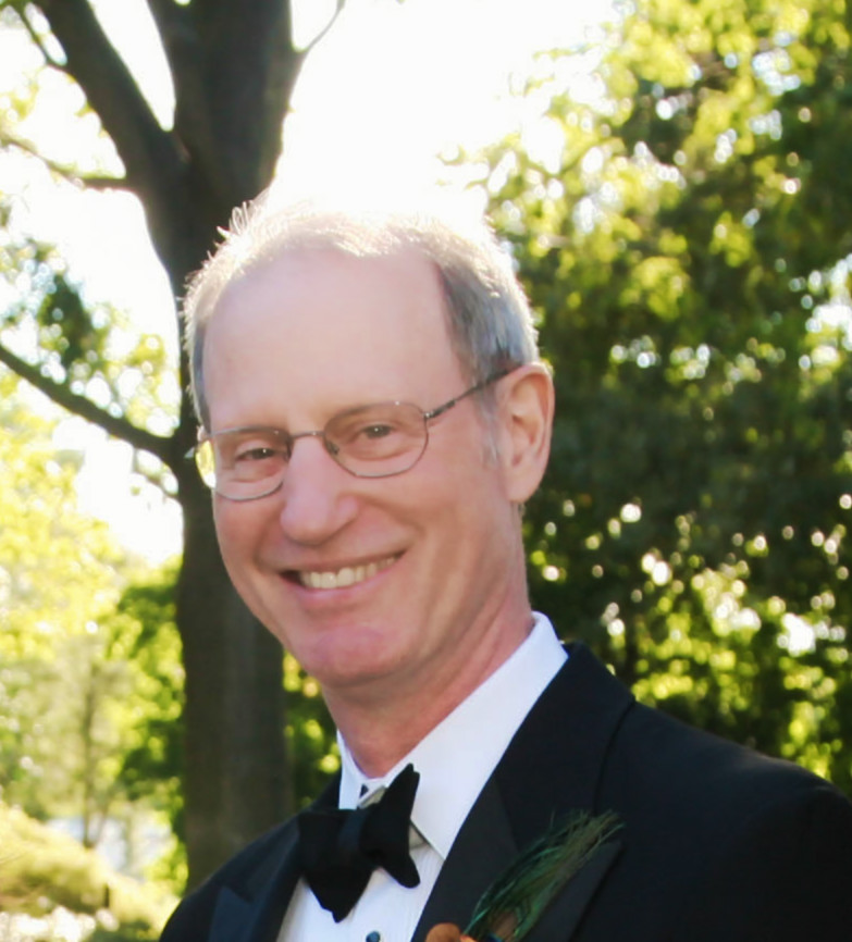 Dr. J. Evan Sadler, renowned hematologist